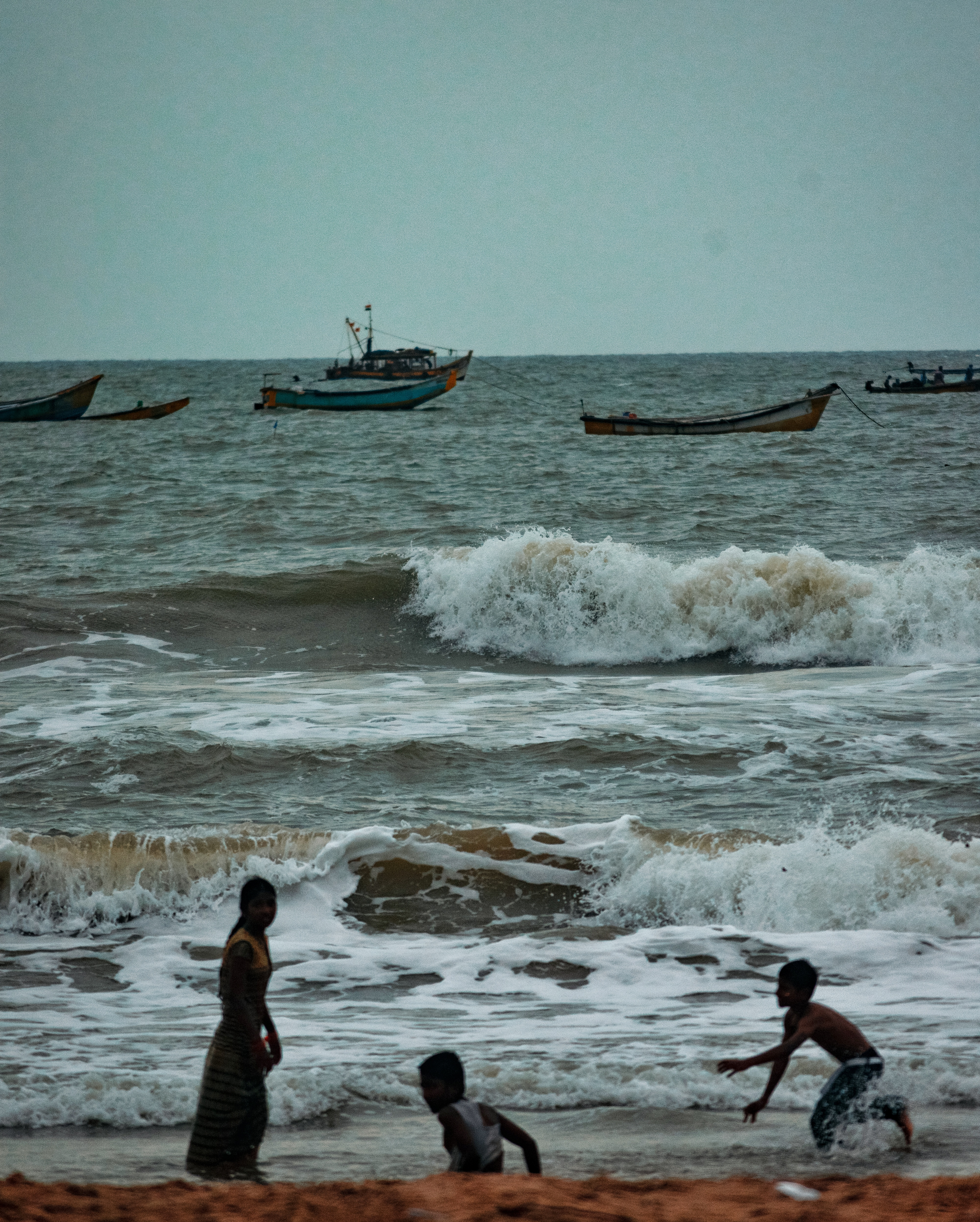 Boats sailing on Chirala beach